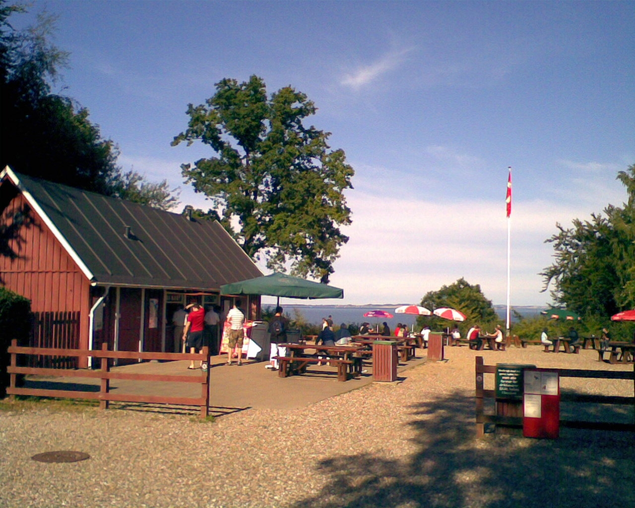 Ørnereden ("eagles nest", Århus, Denmark